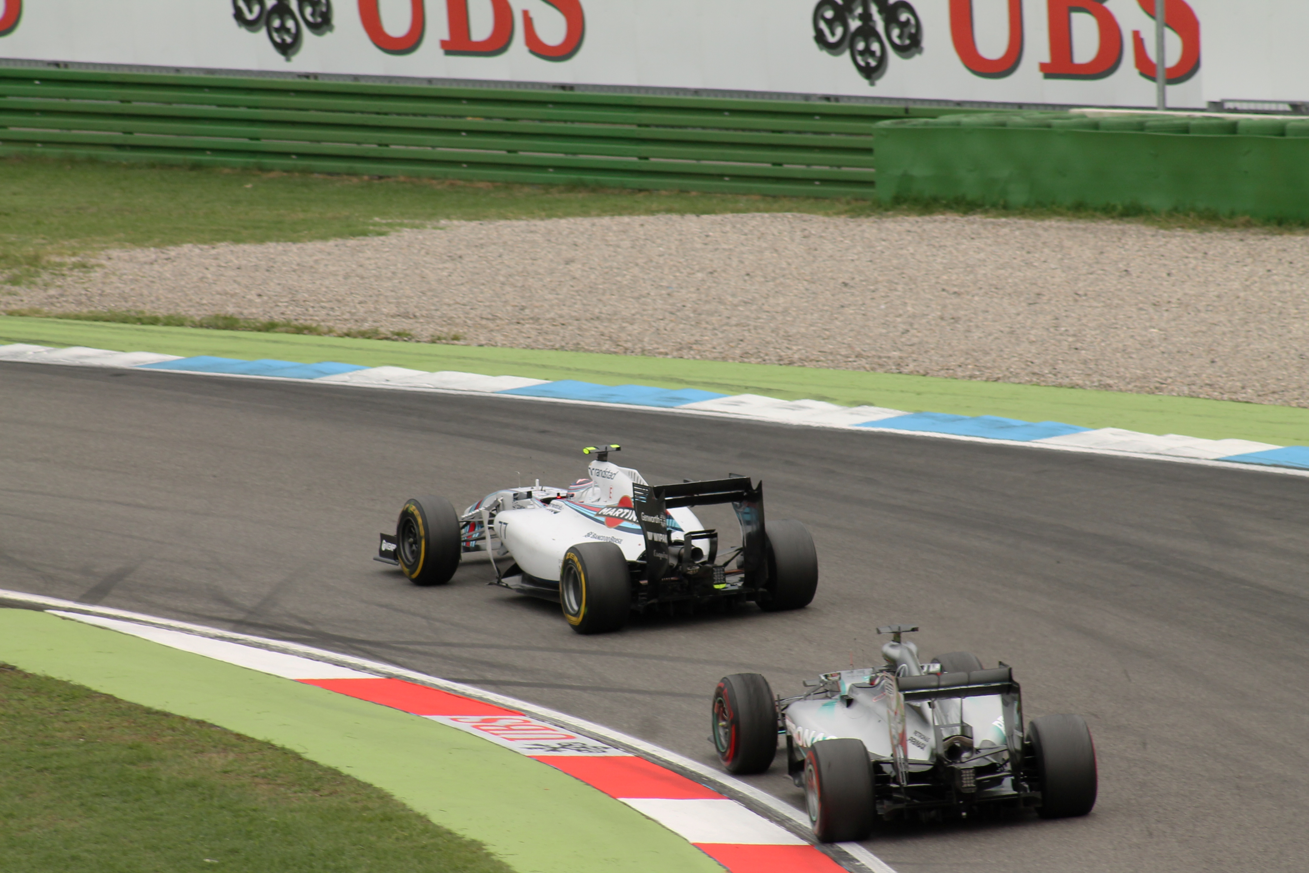 During the last laps of the race Hamilton caught Bottas who was running second. Overtaking proved to be impossible.